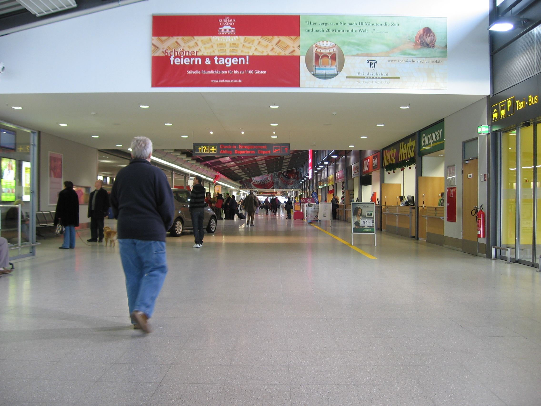 Terminal Building of Flughafen Karlsruhe/Baden-Baden within Baden-Airpark